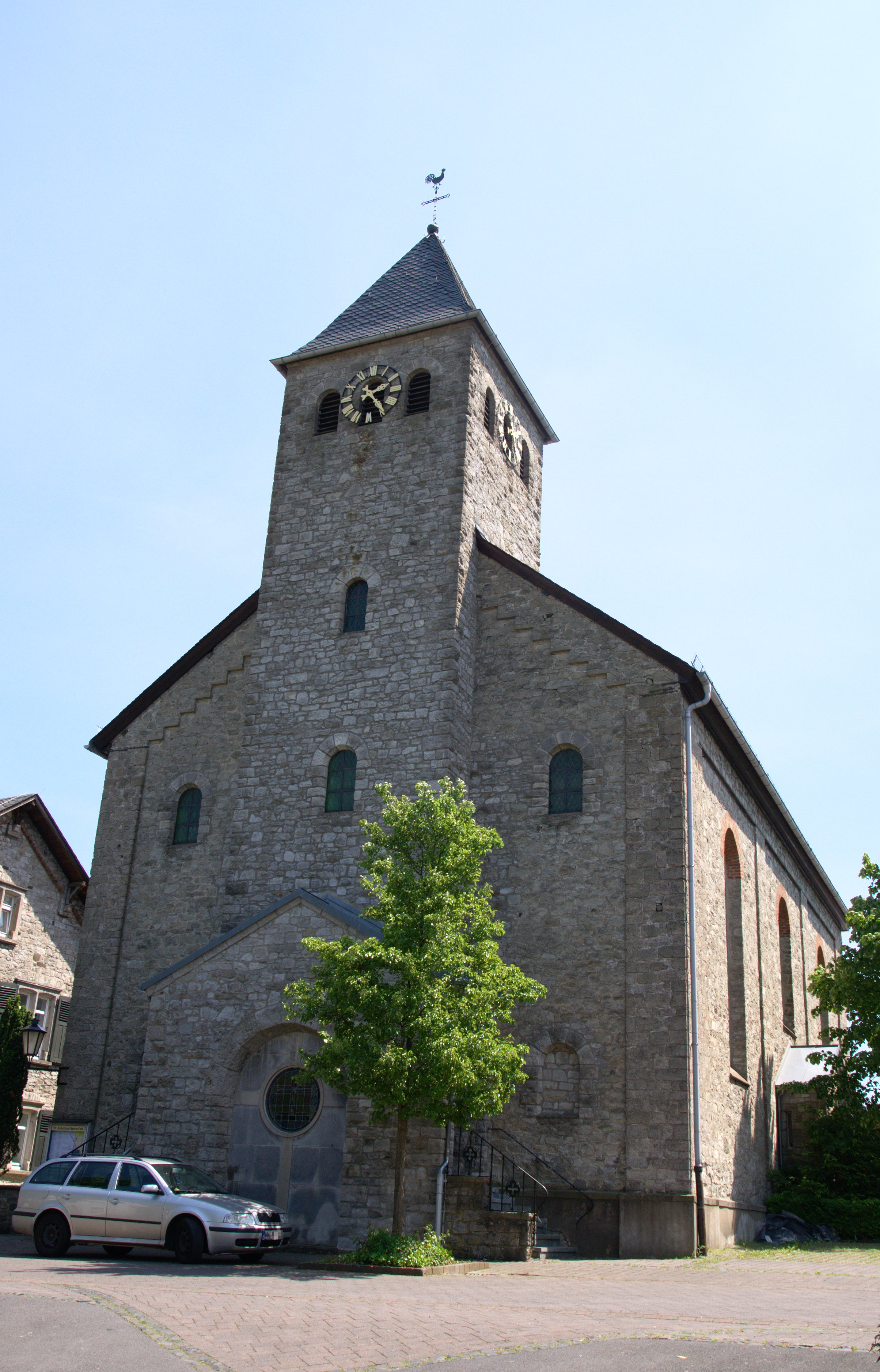 Church in Hartenfels, Westerwald, Rhineland-Palatinate, Germany